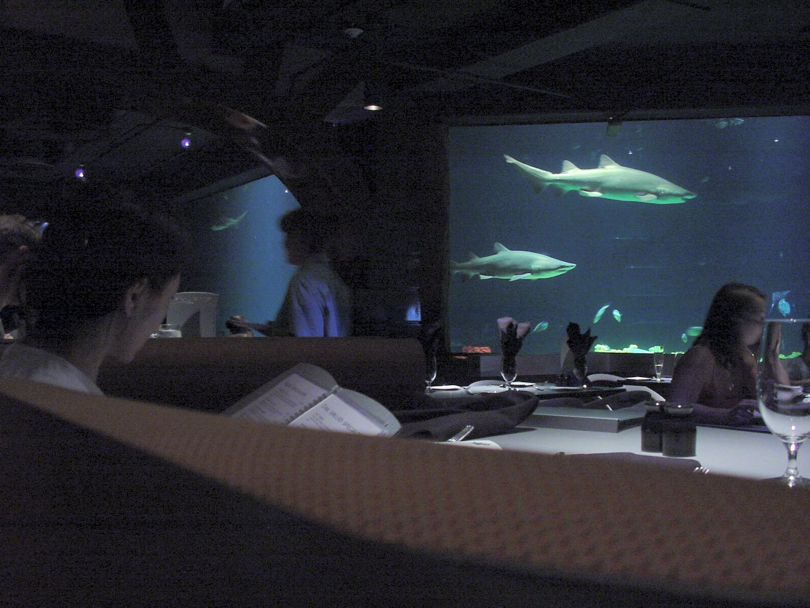 The Sharks Underwater Grill at Orlando Sea World in 2002